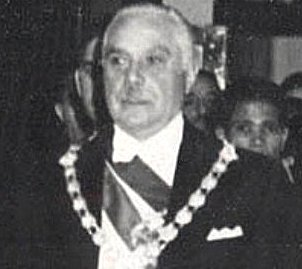 Rafael Trujillo, 1952 (cropped)